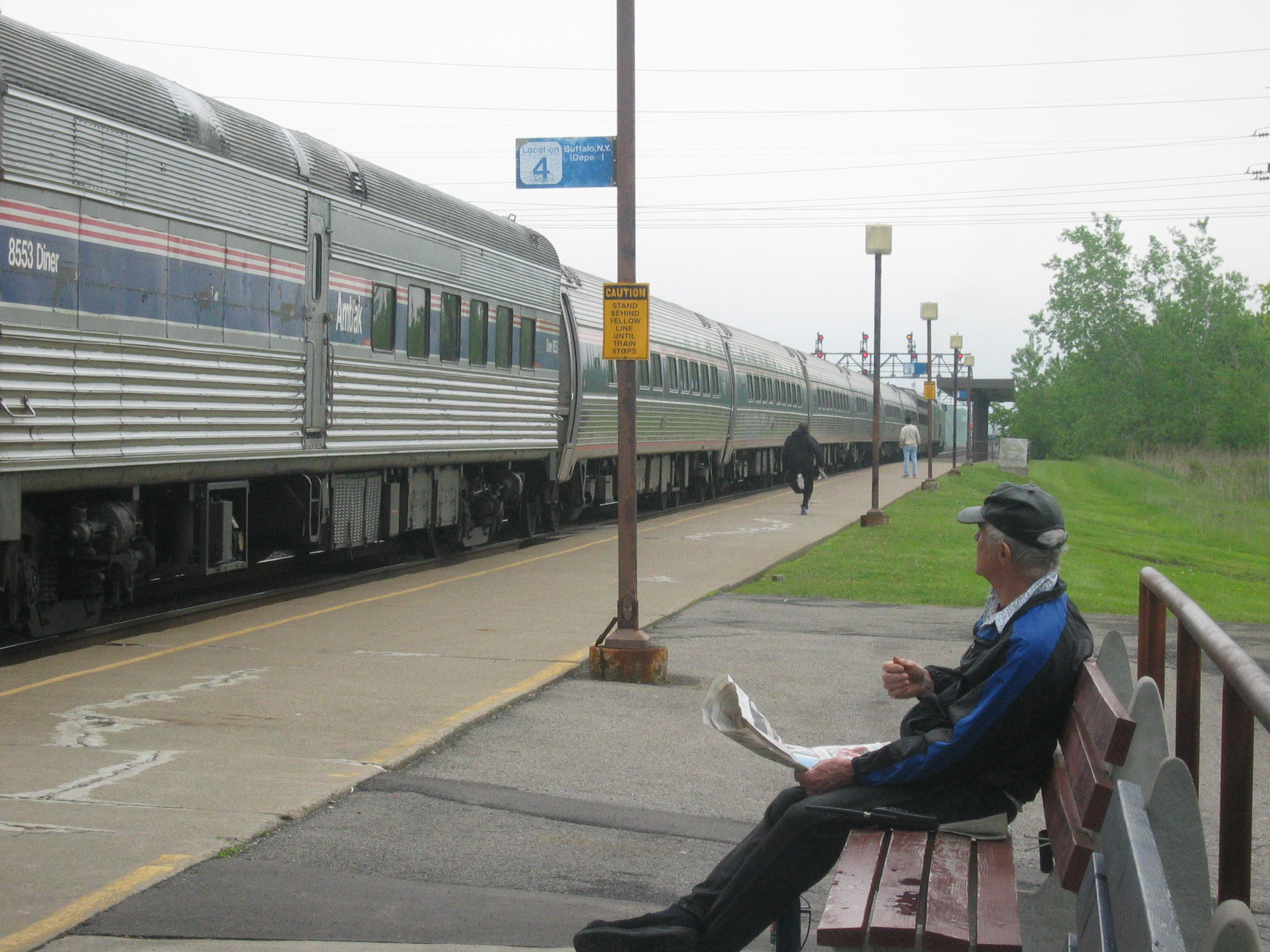 A heritage fleet diner on a Lake Shore Limited train at Buffalo-Depew station in 2004. This car was originally New York Central #452, part of a set of 17 grill-diners built by the Budd Company in 1947.